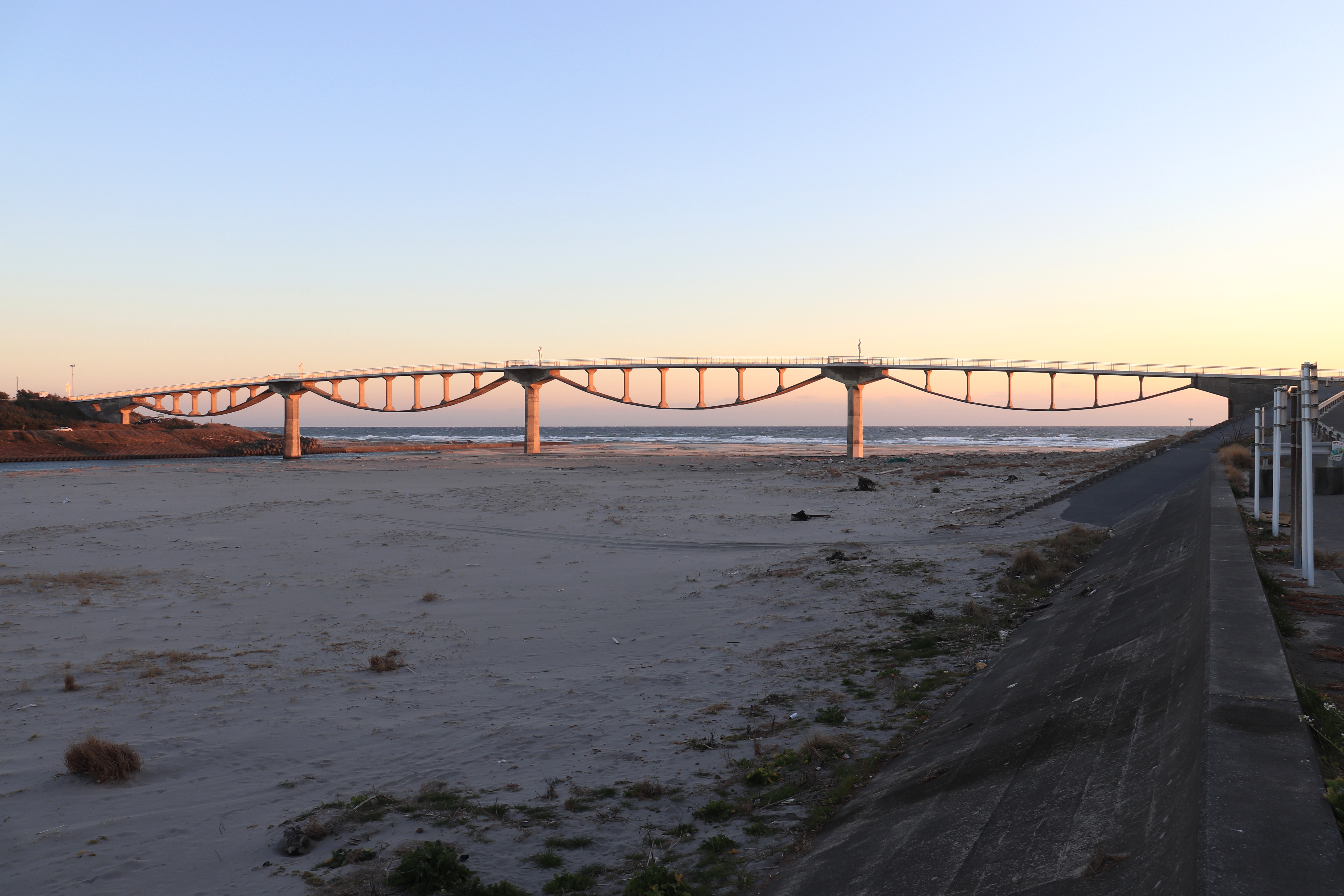 Shiosai Bridge over Kiku River in Kakegawa, Shizuoka Prefectre, Japan. Canon EOS Kiss X9